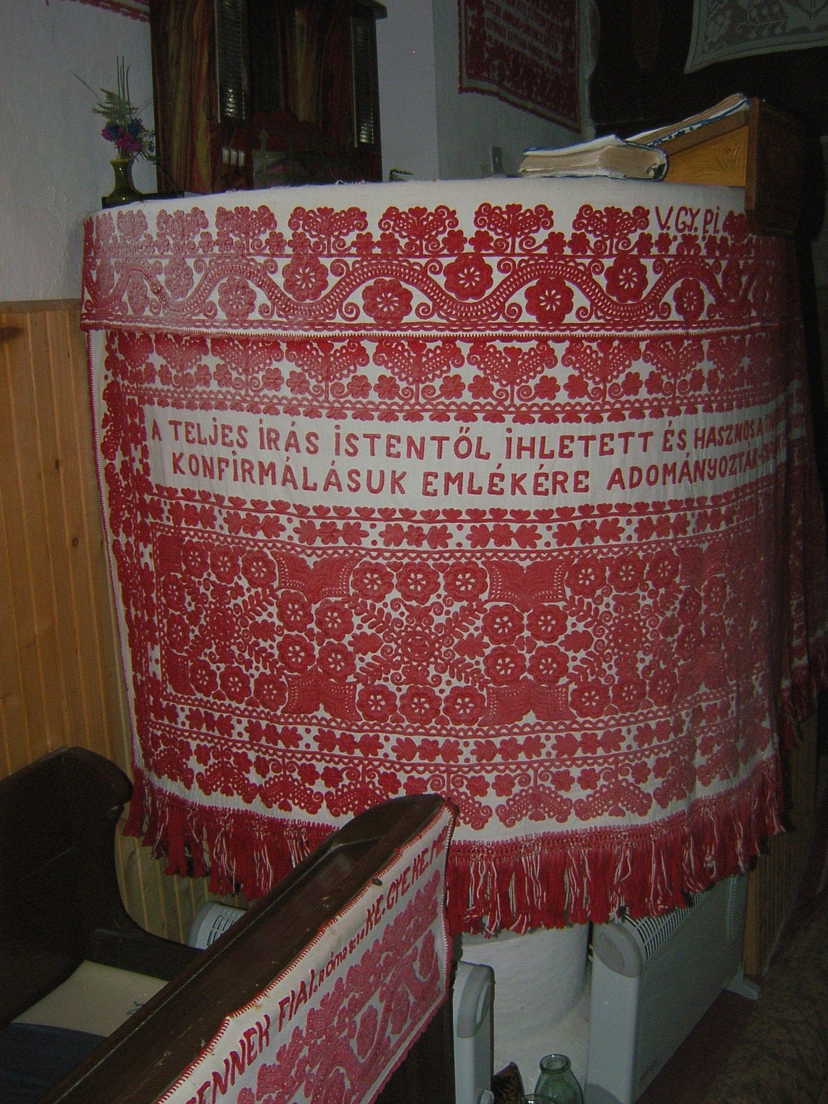 Decoration in the church of Horlacea (hu. Jákótelke)